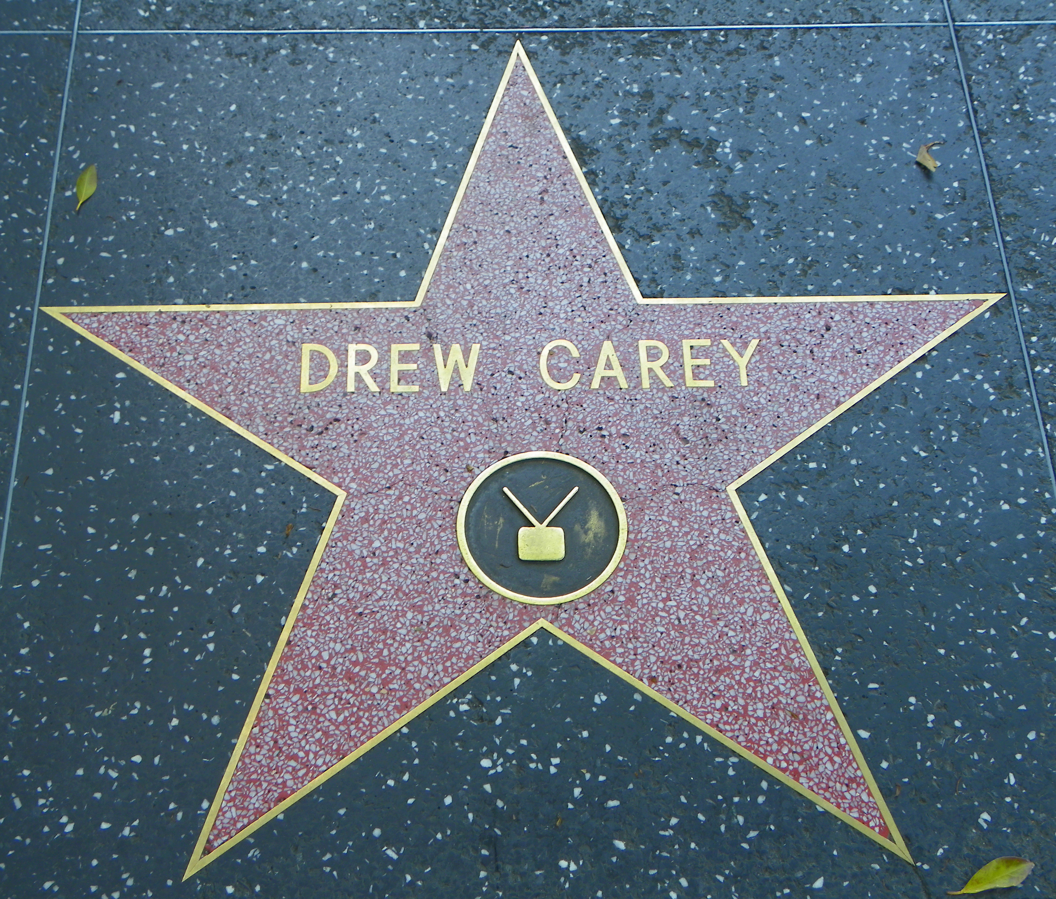 Drew Carey's star on the Hollywood Walk of Fame in Hollywood, Los Angeles, California